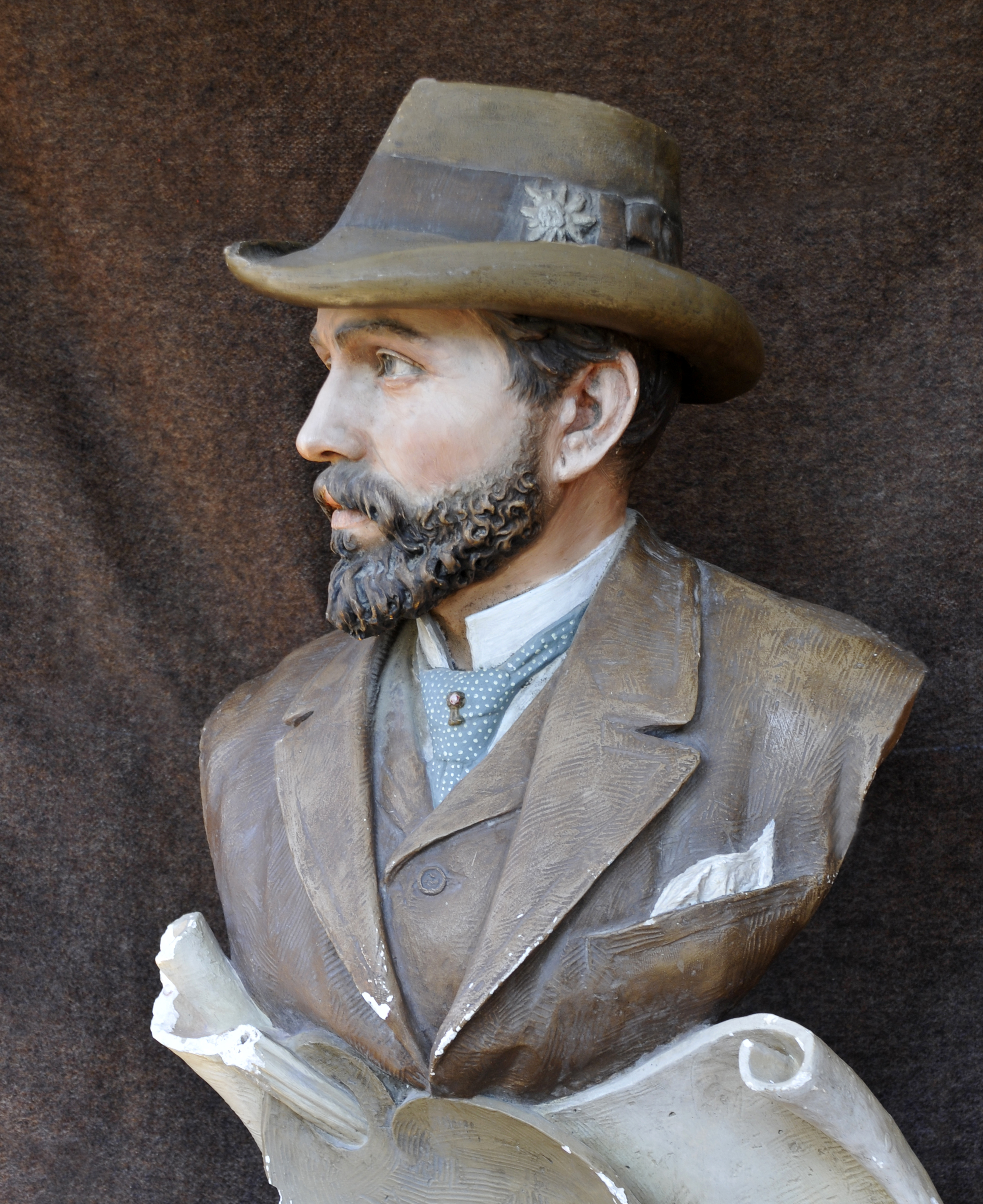 The painter Alois Kostner from Gröden - Italy